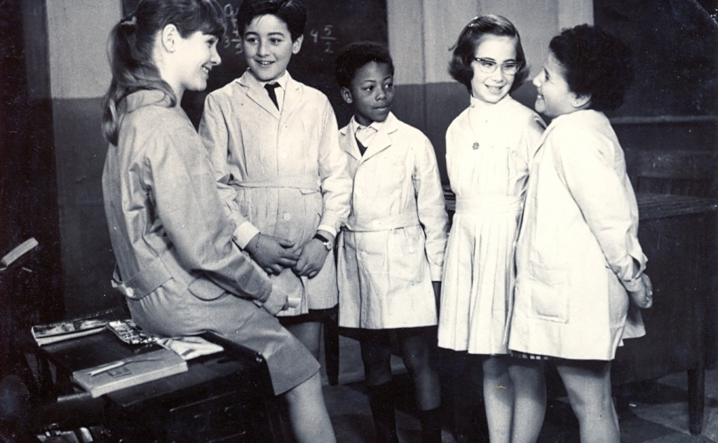 Evangelina Zalazar y Daniel Lago en Jacinta Pichimahuida